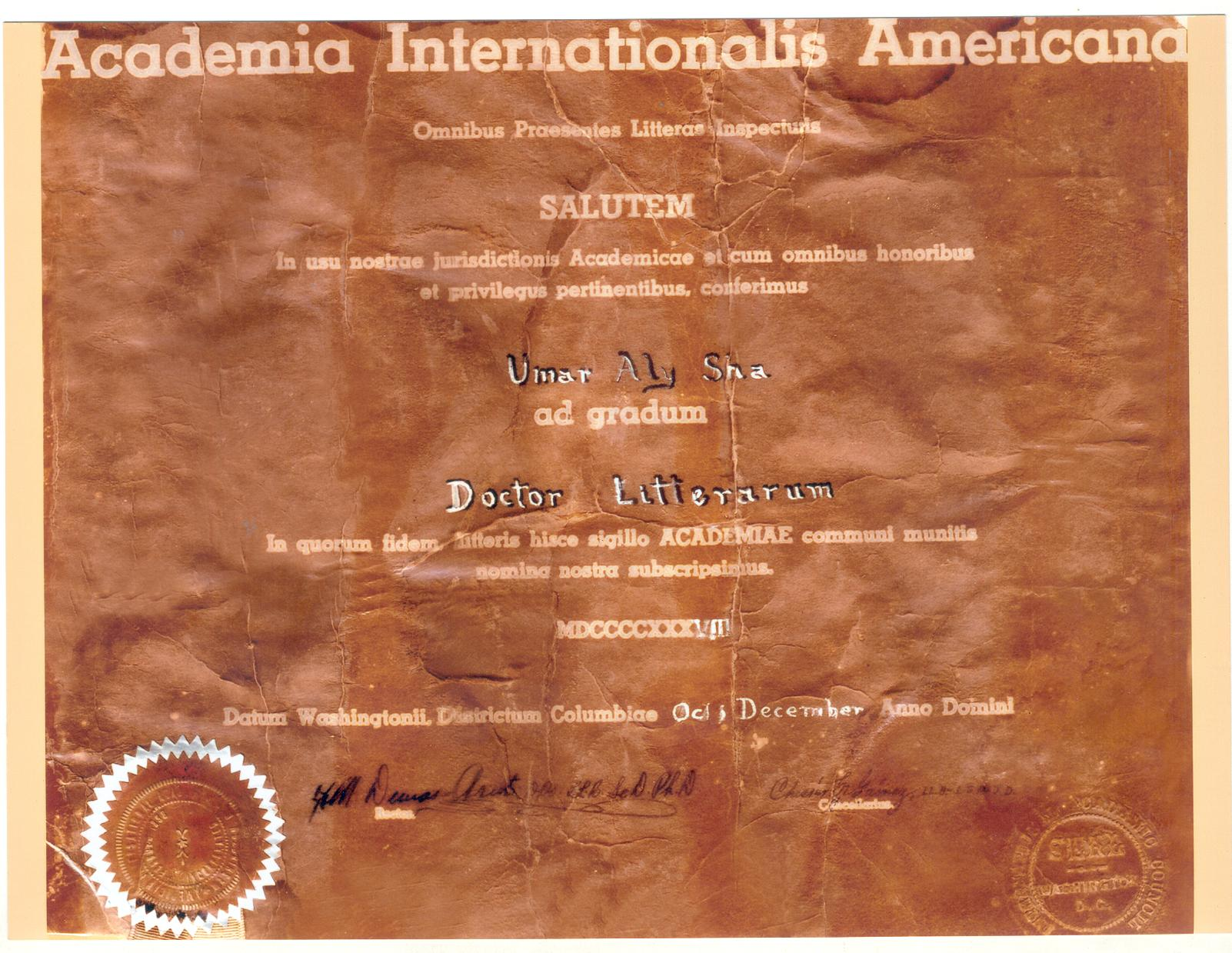 this is the certificate of award of doctor of literature to dr umar alisha